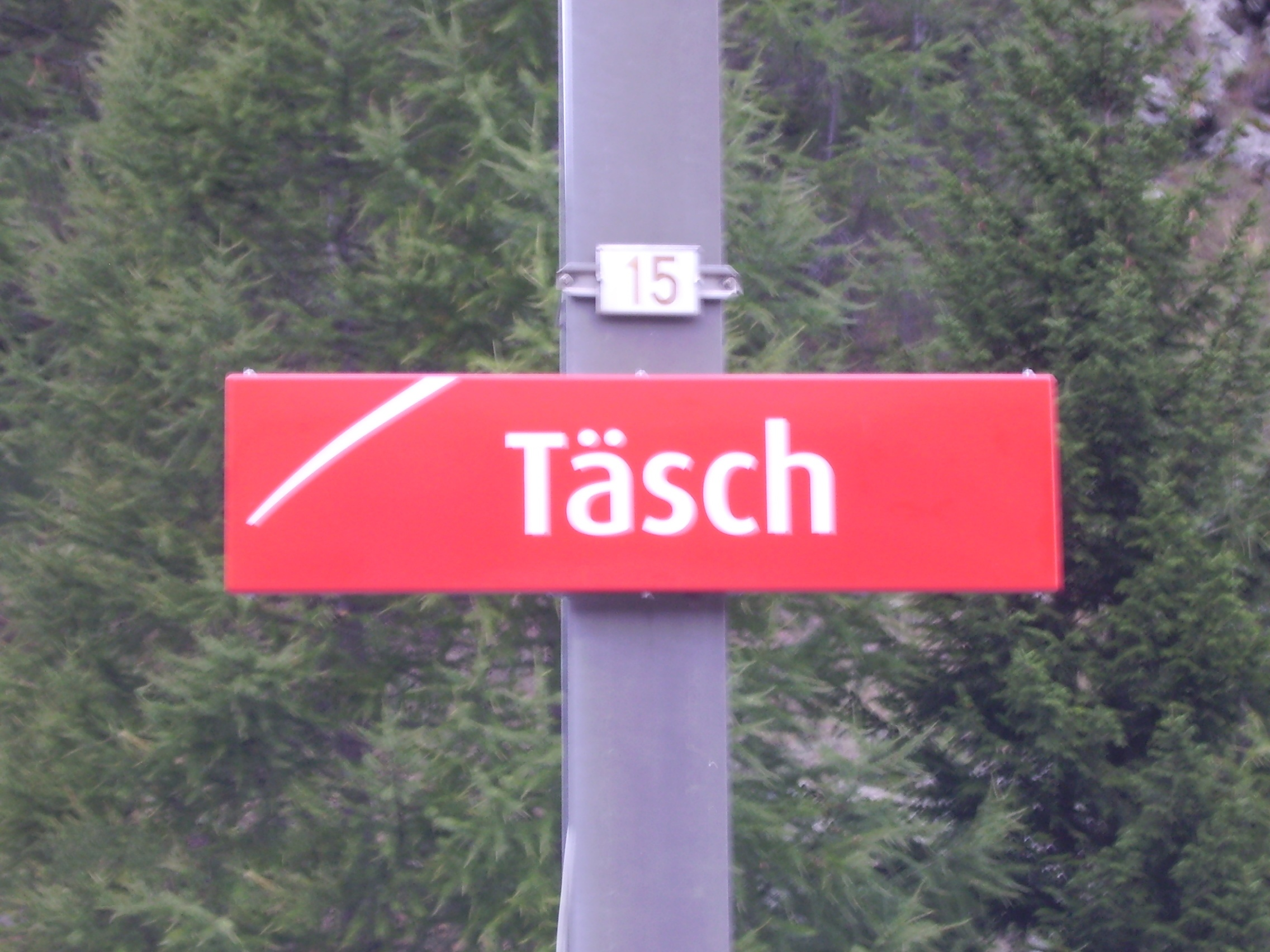 Täsch, typical station label of the Matterhorn-Gotthard-Bahn in Täsch, Valais, Switzerland; type font FF Dax